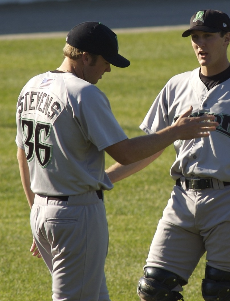 Jeff Stevens (left) and Chris Denove of the Dayton Dragons before a game against the Southwest Michigan Devil Rays in 2006.